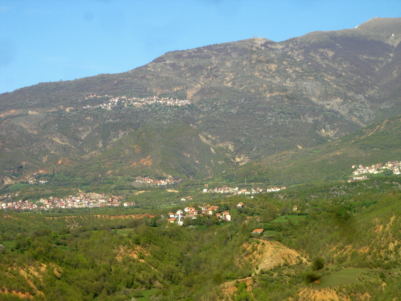 villages in Centar Župa Municipality, near Debar, Macedonia